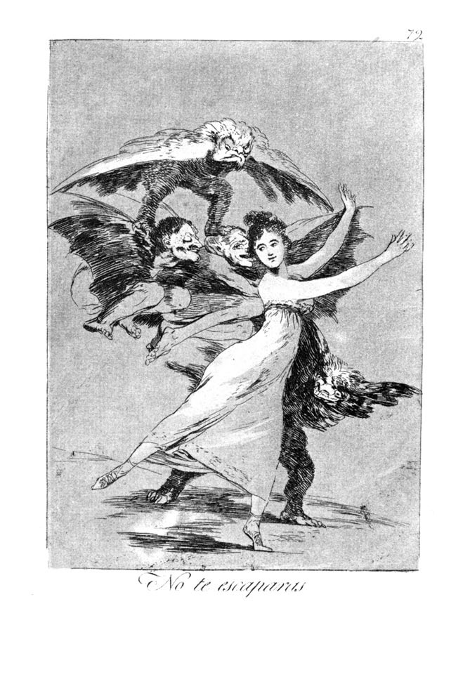 Los Caprichos is a set of 80 aquatint prints created by Francisco Goya for release in 1799.